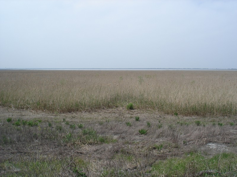 Shapsugskoye Reservoir, near Druzhny, Adygea, Russia.